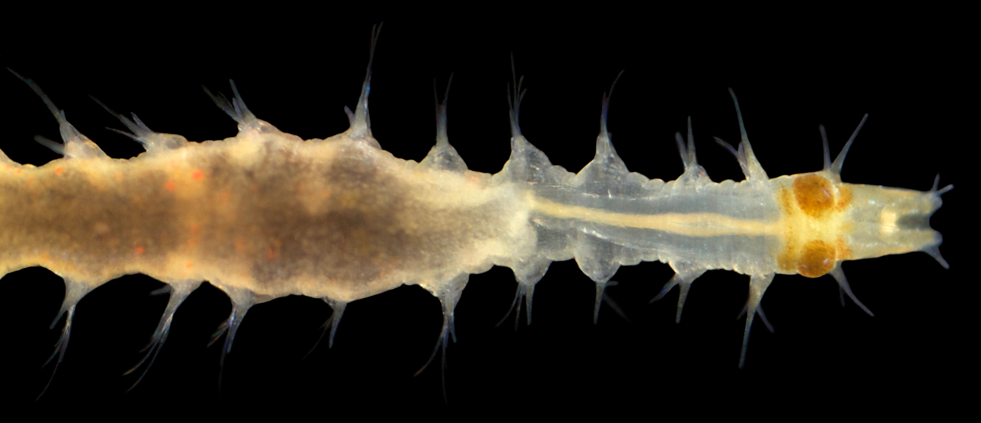 Glyphohesione klatti